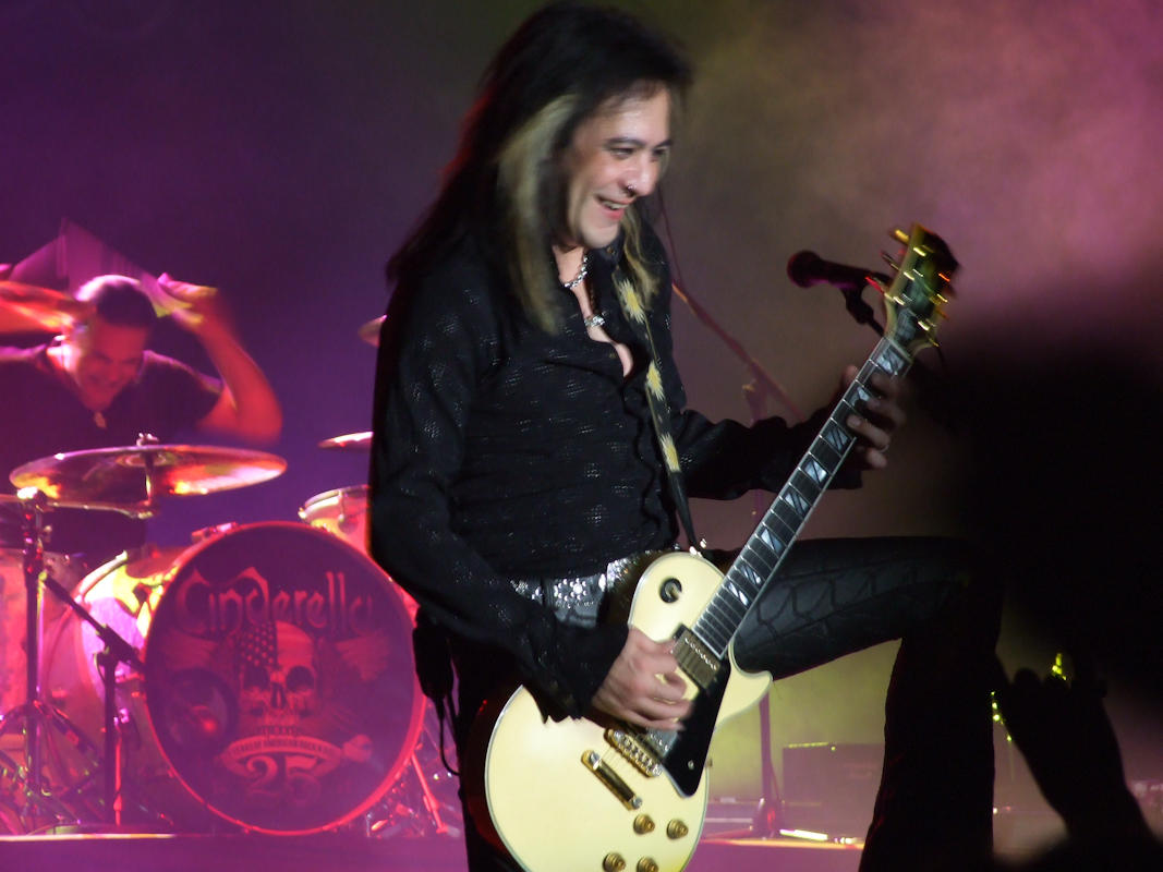 The American guitarist Jeff LaBar with Cinderella at Festivalna Hall in Sofia, Bulgaria.